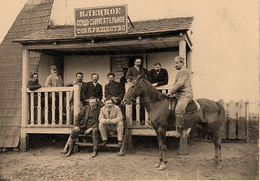 Bank in Kleck (Minsk region, Russian empire), before 1901 AD